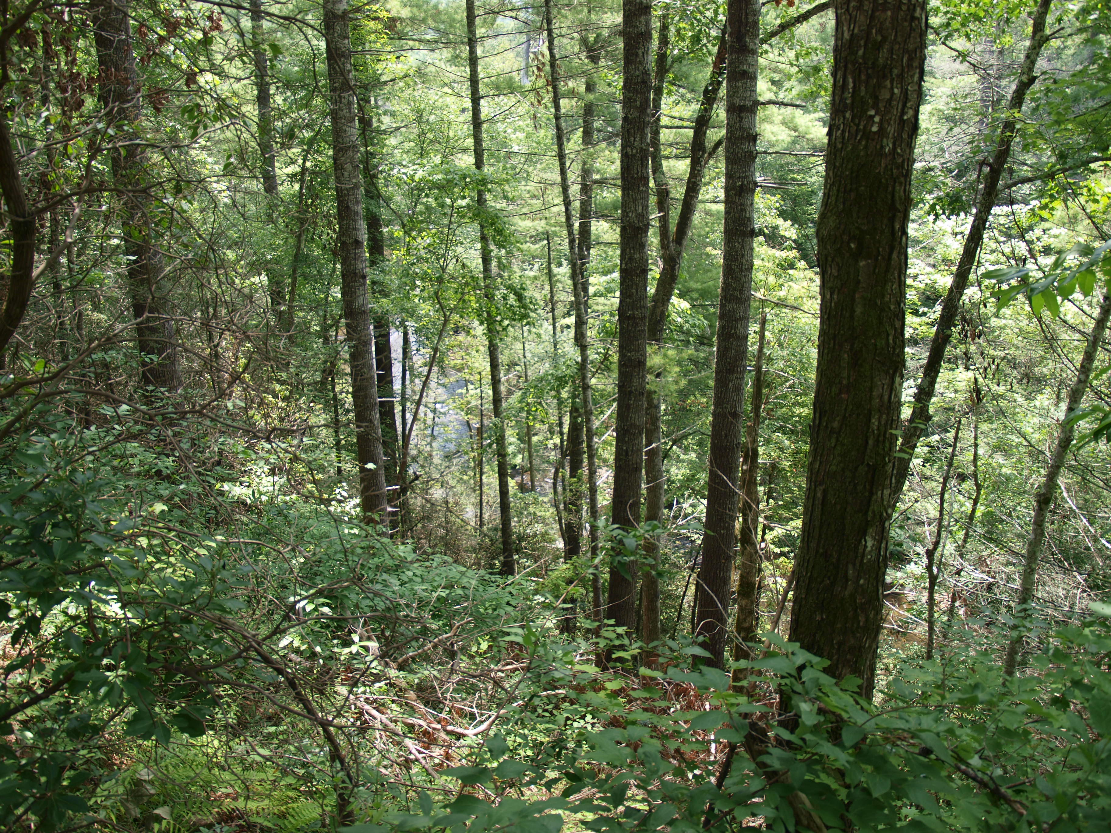 Oak-pine forest at Abrams Creek Trail, Great Smoky Mountains National Park